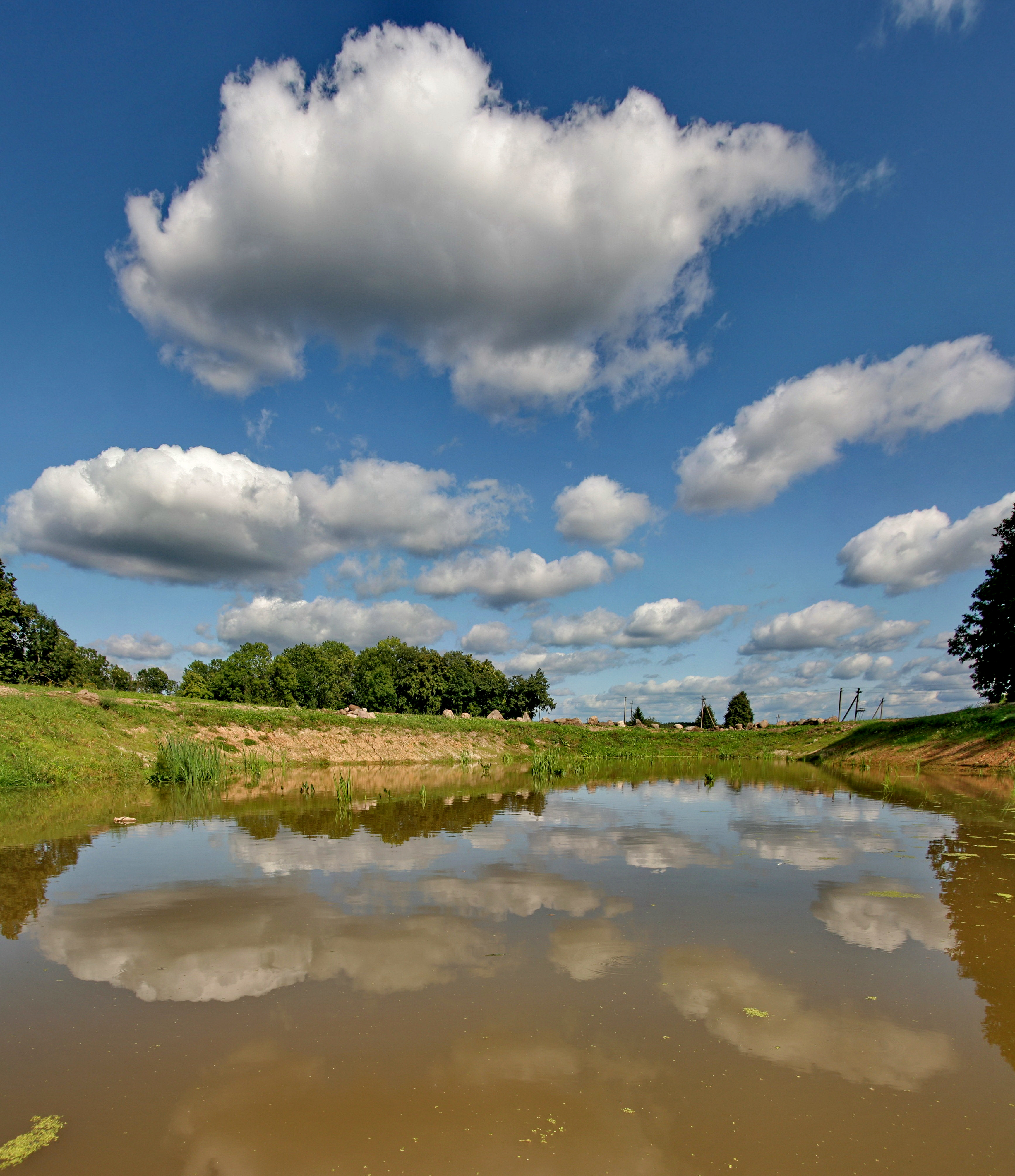 Krikštėnai manor pond